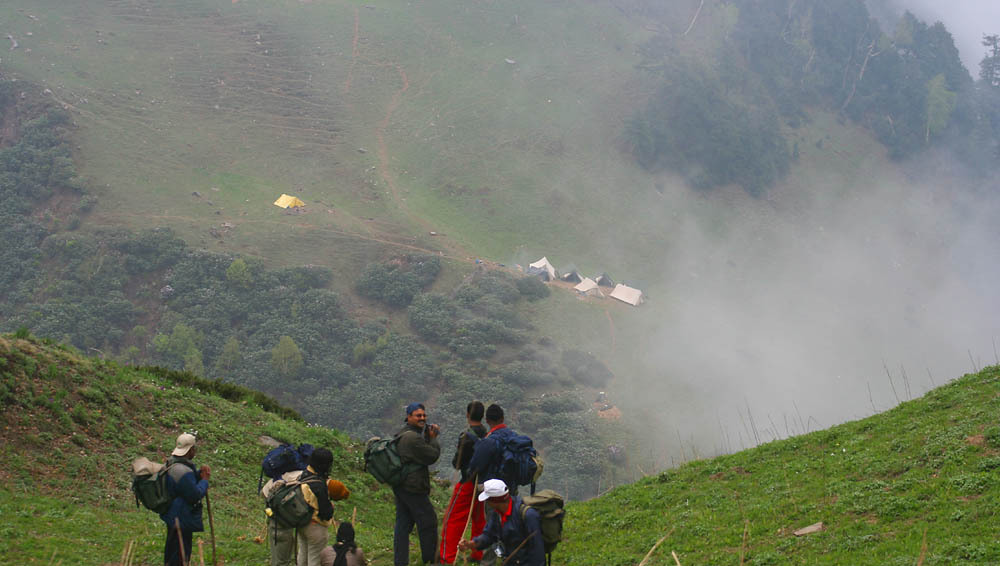 Shooting the Camp (Mailee Thaatch) site at 10.50 hrs. on way to Daura Thaatch (11,300 ft.) during Saurkundi Pass Trek in Kullu District of Himachal Pradesh, India.